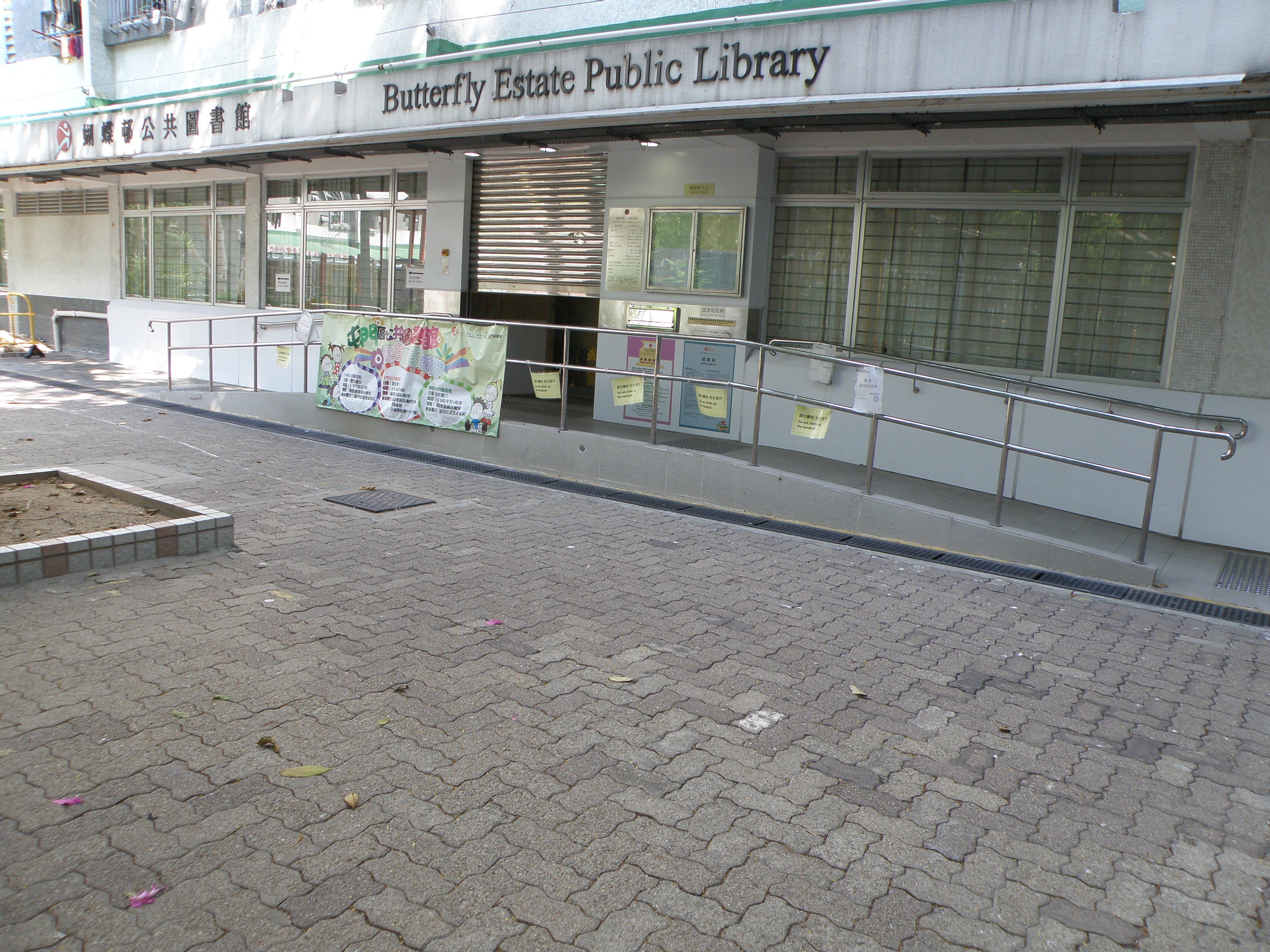 Butterfly Estate Public Library in Tuen Mun, Hong Kong.